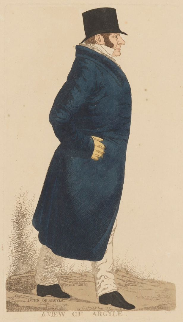 George William Campbell, 6th Duke of Argyll ('A view of Argyle') by and published by Richard Dighton, reissued by Thomas McLean hand-coloured etching, published May 1819 11 1/8 in. x 6 1/8 in. (284 mm x 156 mm) plate size; 14 7/8 in. x 9 3/4 in. (377 mm x 247 mm) paper size Purchased with help from the Friends of the National Libraries and the Pilgrim Trust, 1966 Reference Collection NPG D46395